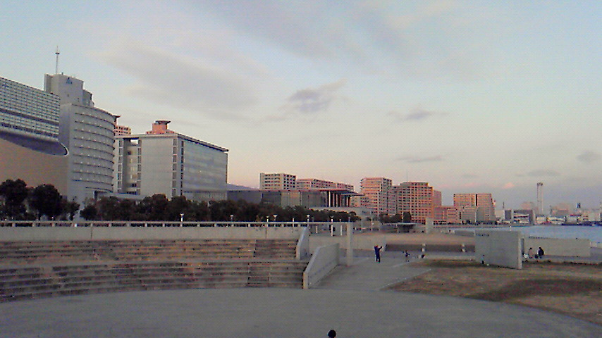 HAT-kobe kobe city ,hyuogo prefecture ,Japan